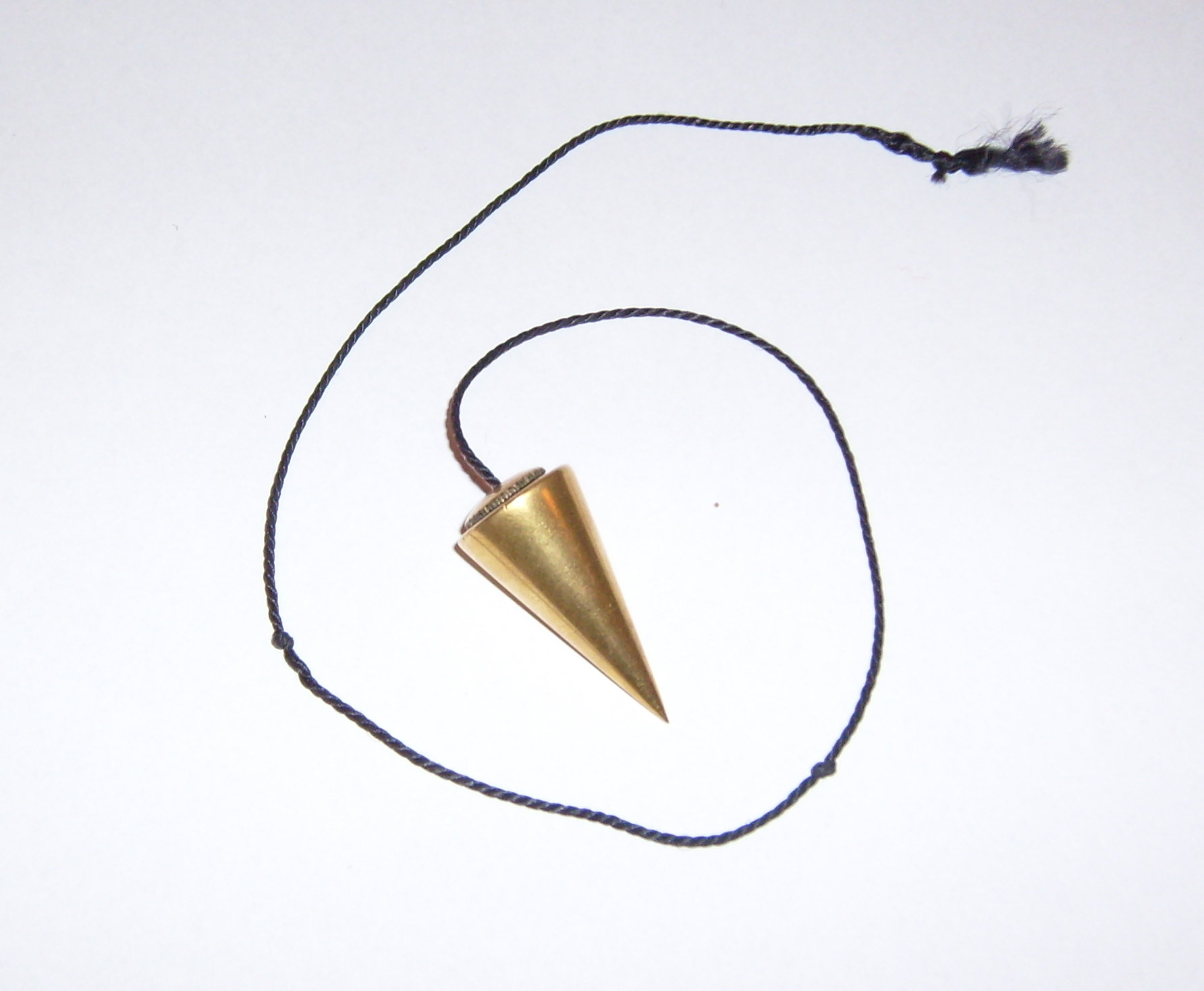 Radiesthetic pendulum.